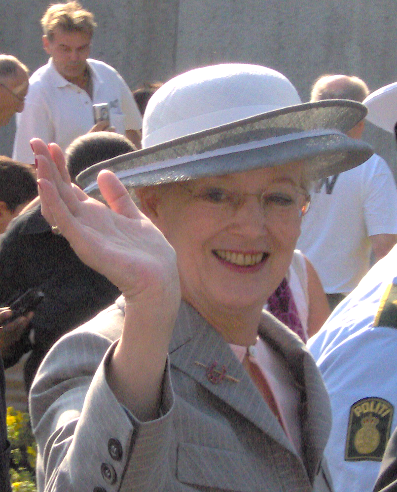 Magrethe II, queen of Denmark.